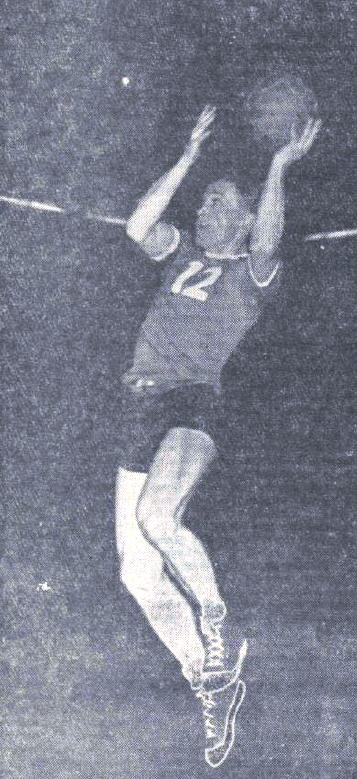 Boris Kristančič (1932-), Slovene basketball player, coach and engineer.